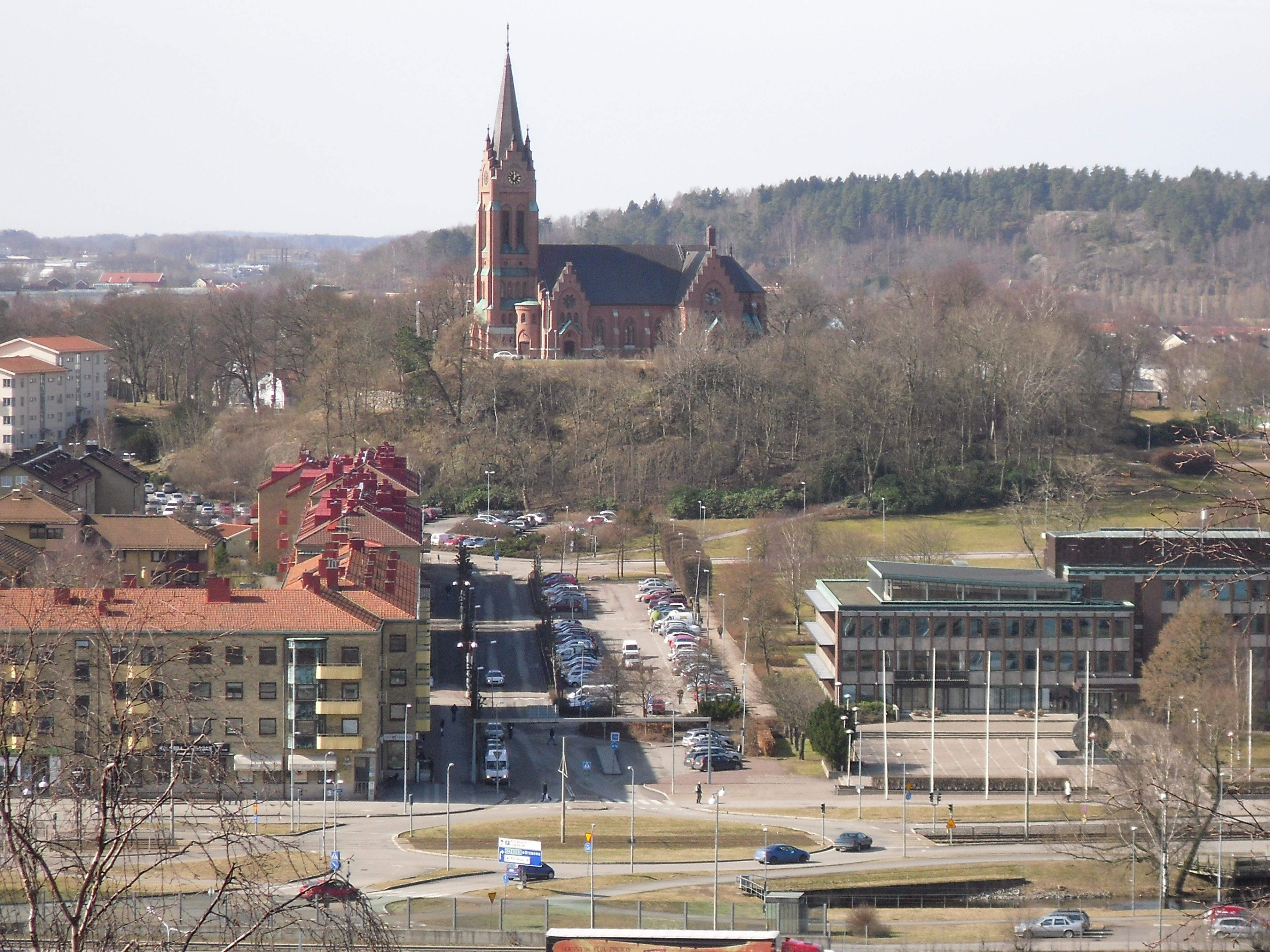 Fässberg Church, Mölndal, Sweden